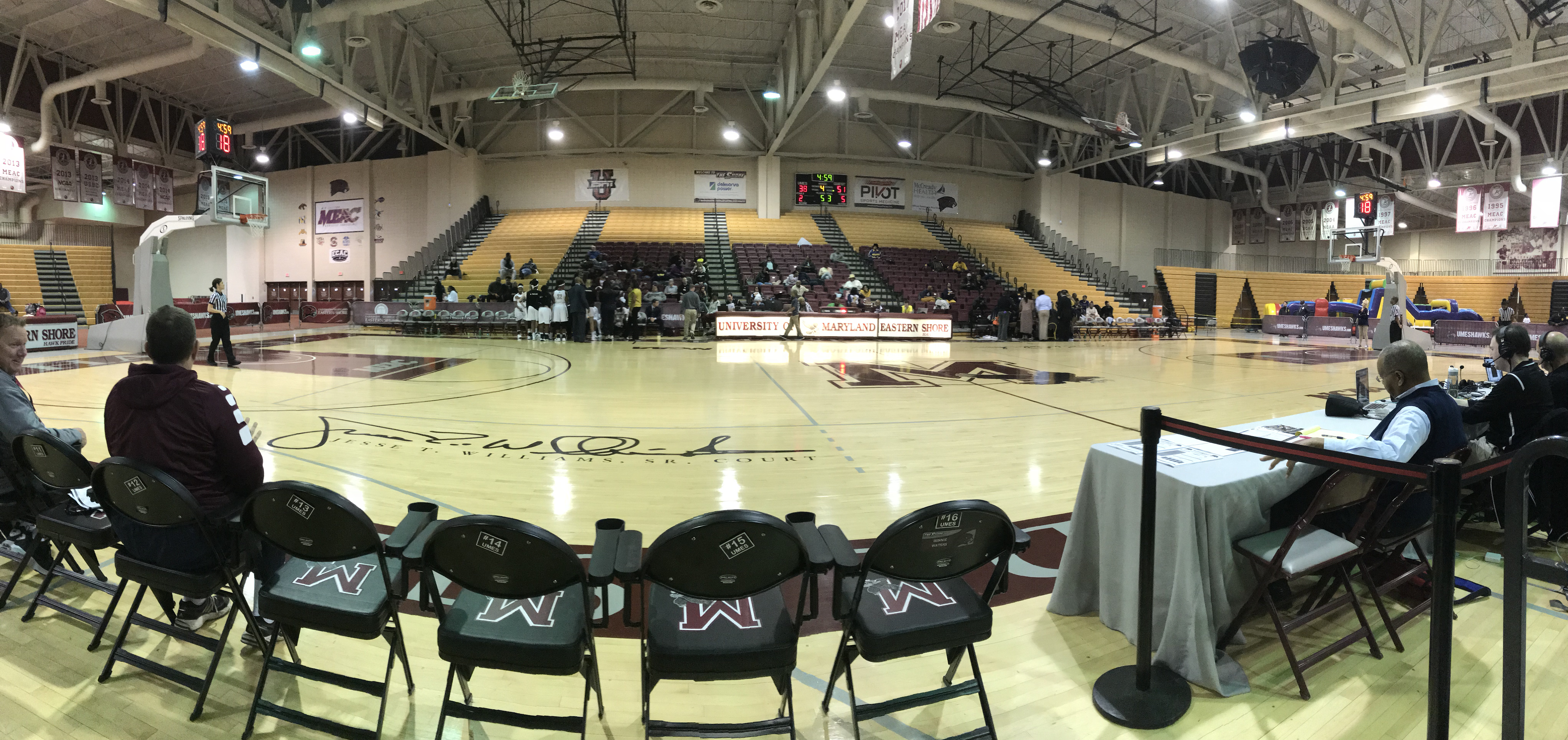 The interior of the William P. Hytche Center in Princess Anne, Maryland.